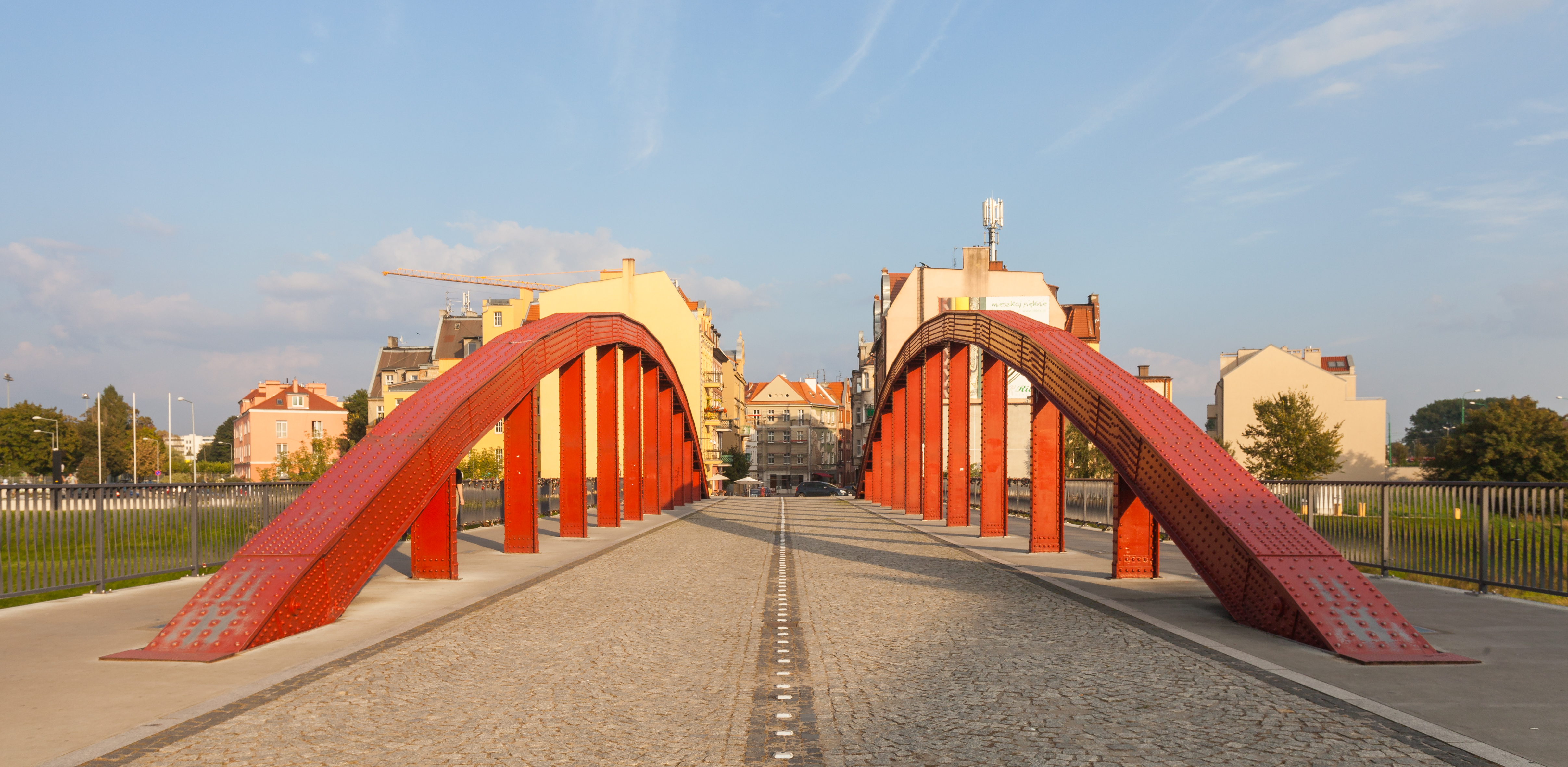 Jordan Bishop bridge, Poznań, Poland